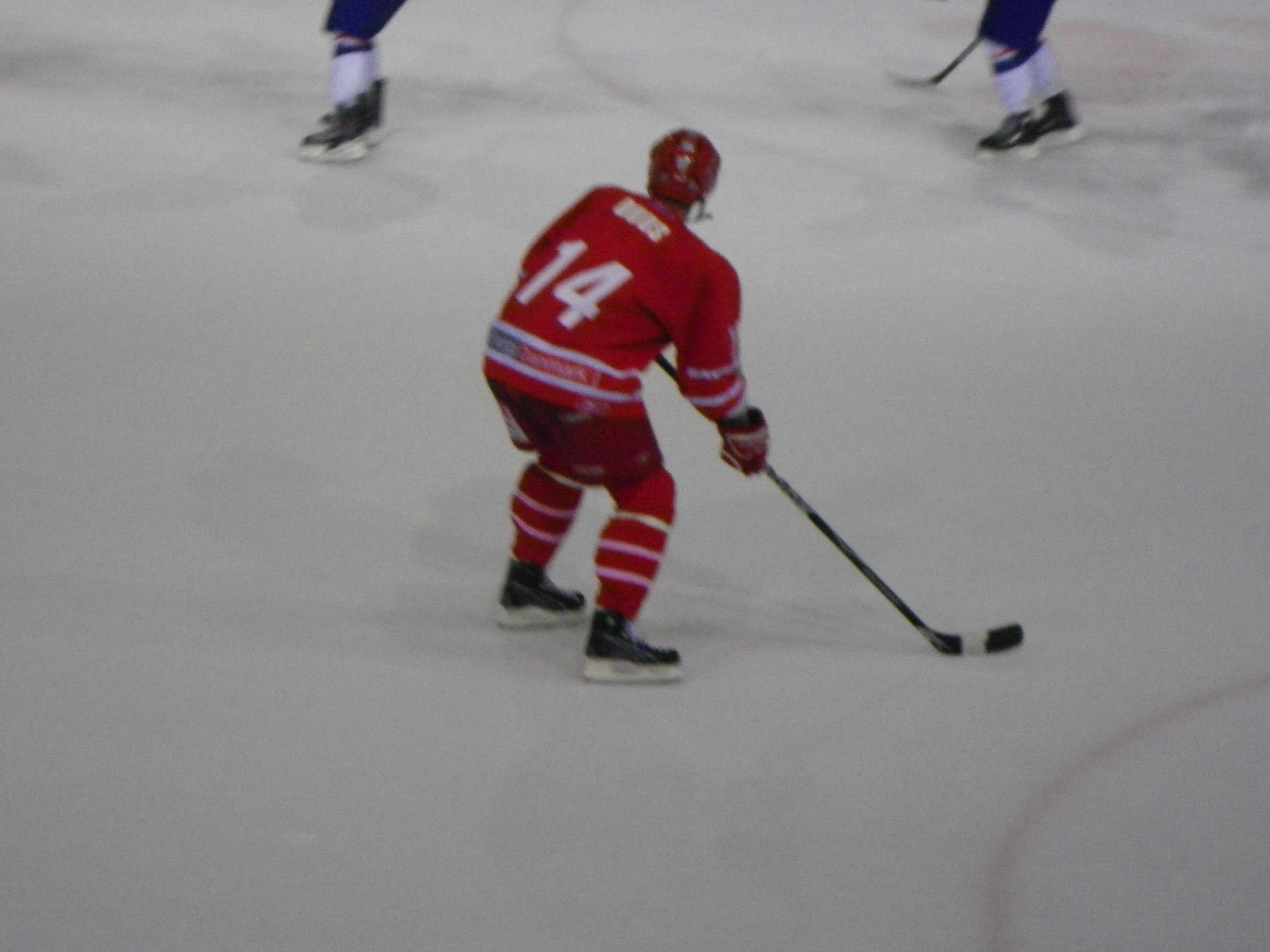 Jesper Duus, danish ice hockey player with team Denmark. Friendly against team France